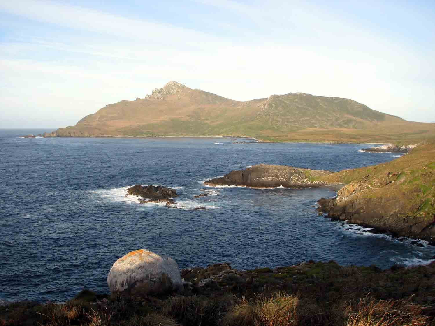 Cape Horn Island at 8 A.M. on a good day....